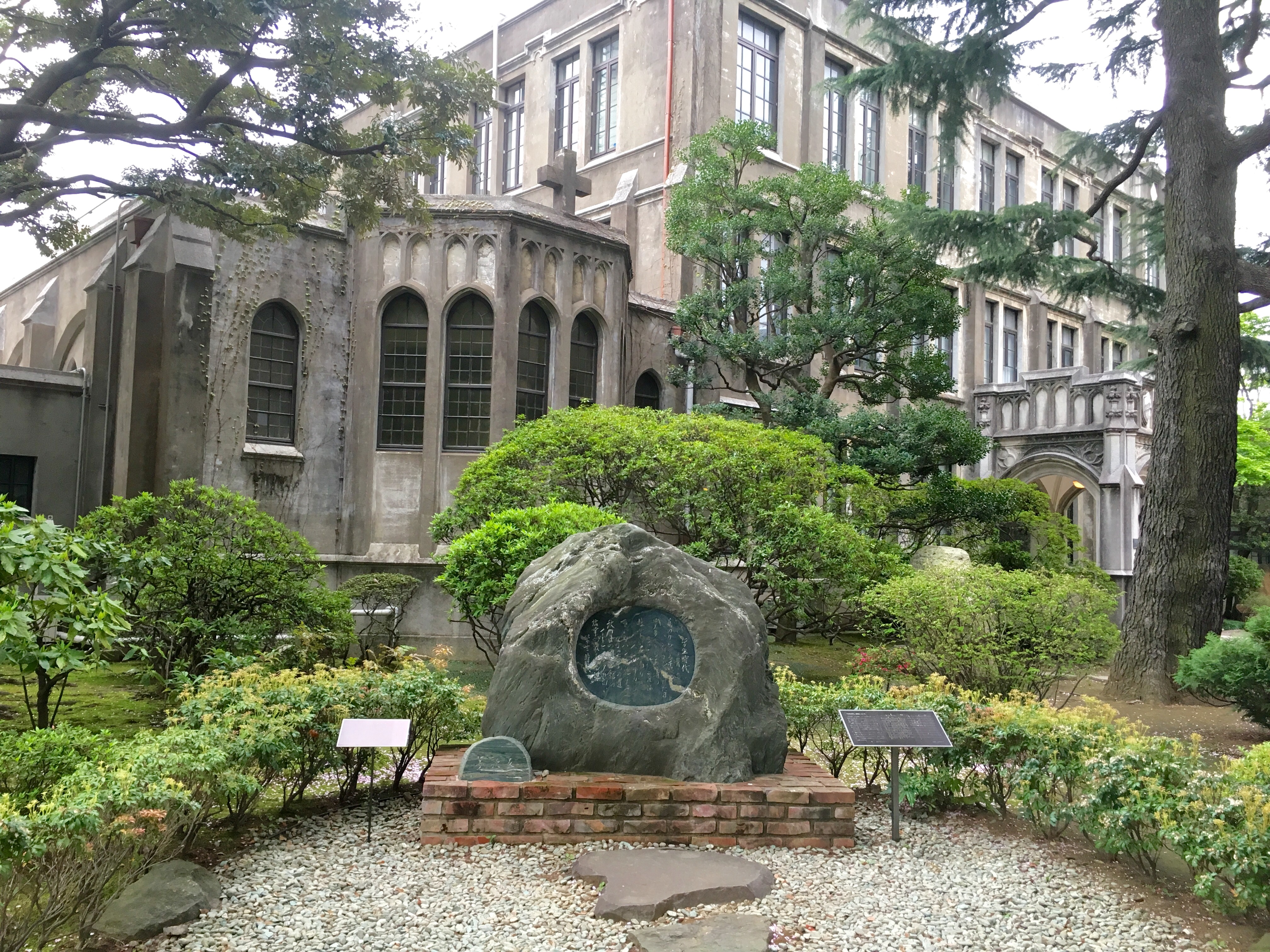 This is the Monument of the song "Gakusei jidai (Student Life)", located in the campus of Aoyama Gakuin .The song is very famous for japanese people.